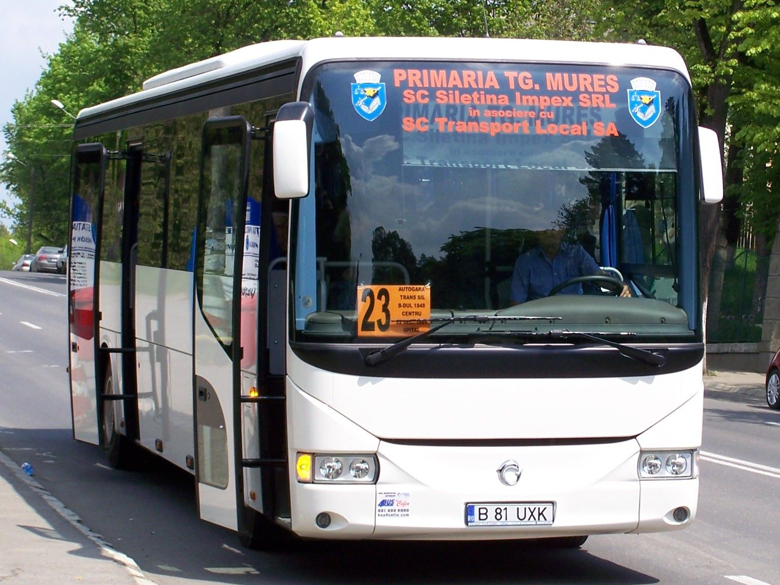 23 bus in Targu Mures (Irisbus Arway).